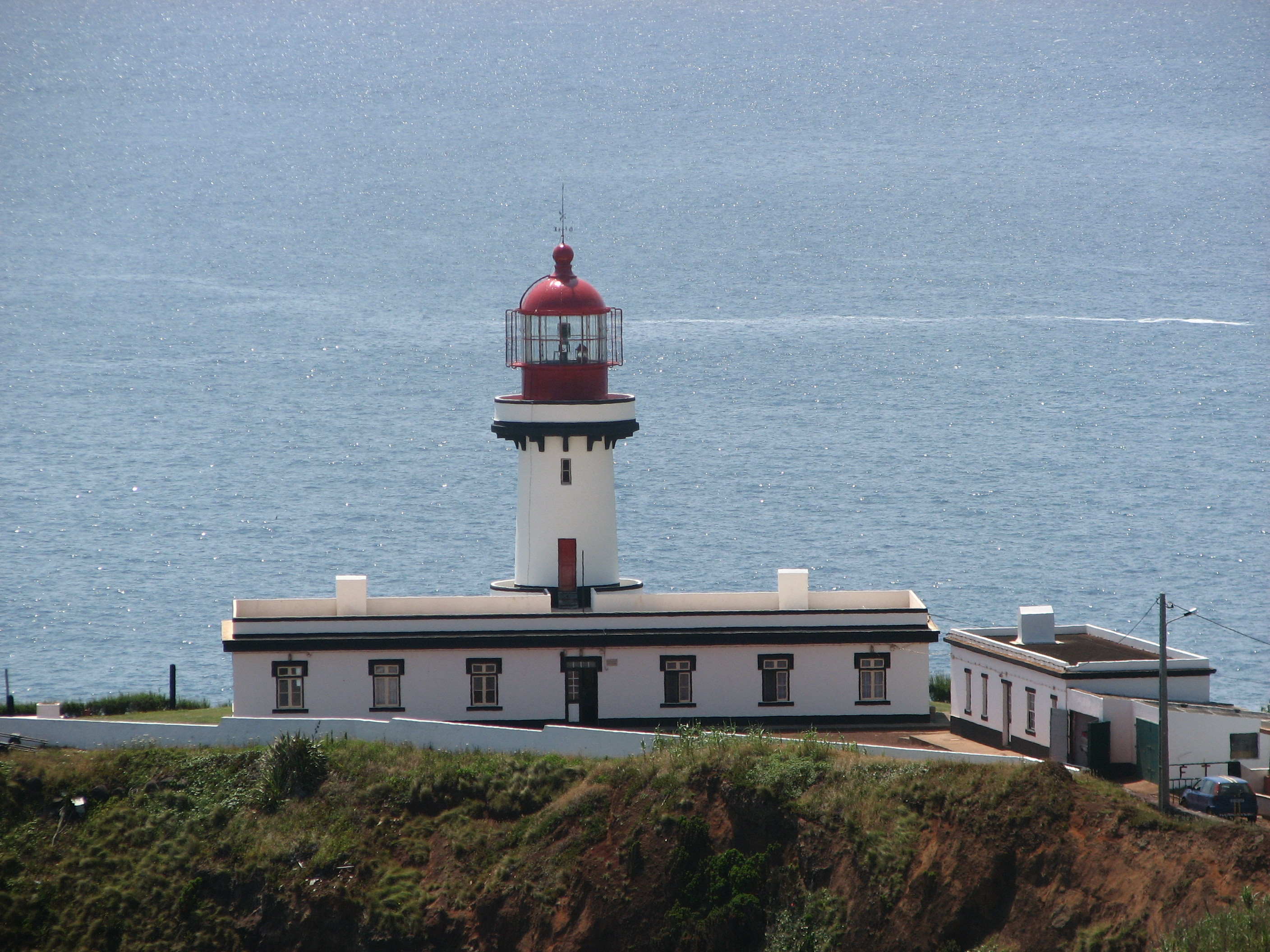 The lighthouse at Ponta do Topo, São Jorge, Azores.